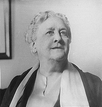 Title Portrait photograph of Mrs. James Roosevelt Contributor Names Genthe, Arnold, 1869-1942, photographer Created / Published between 1937 and 1942; from a negative taken 1937 Feb. 12. Subject Headings - Roosevelt, Sara Delano,--1854-1941. Format Headings Lantern slides. Portrait photographs. Notes - Title devised. - Purchase; Genthe Estate; 1942 or 1943. - ID: LC-G412-9433-A-x; 1937 Feb. 12 Medium 1 slide : lantern ; 4 x 5 in. or smaller. Call Number/Physical Location LC-G4085- 0420 [P&P]